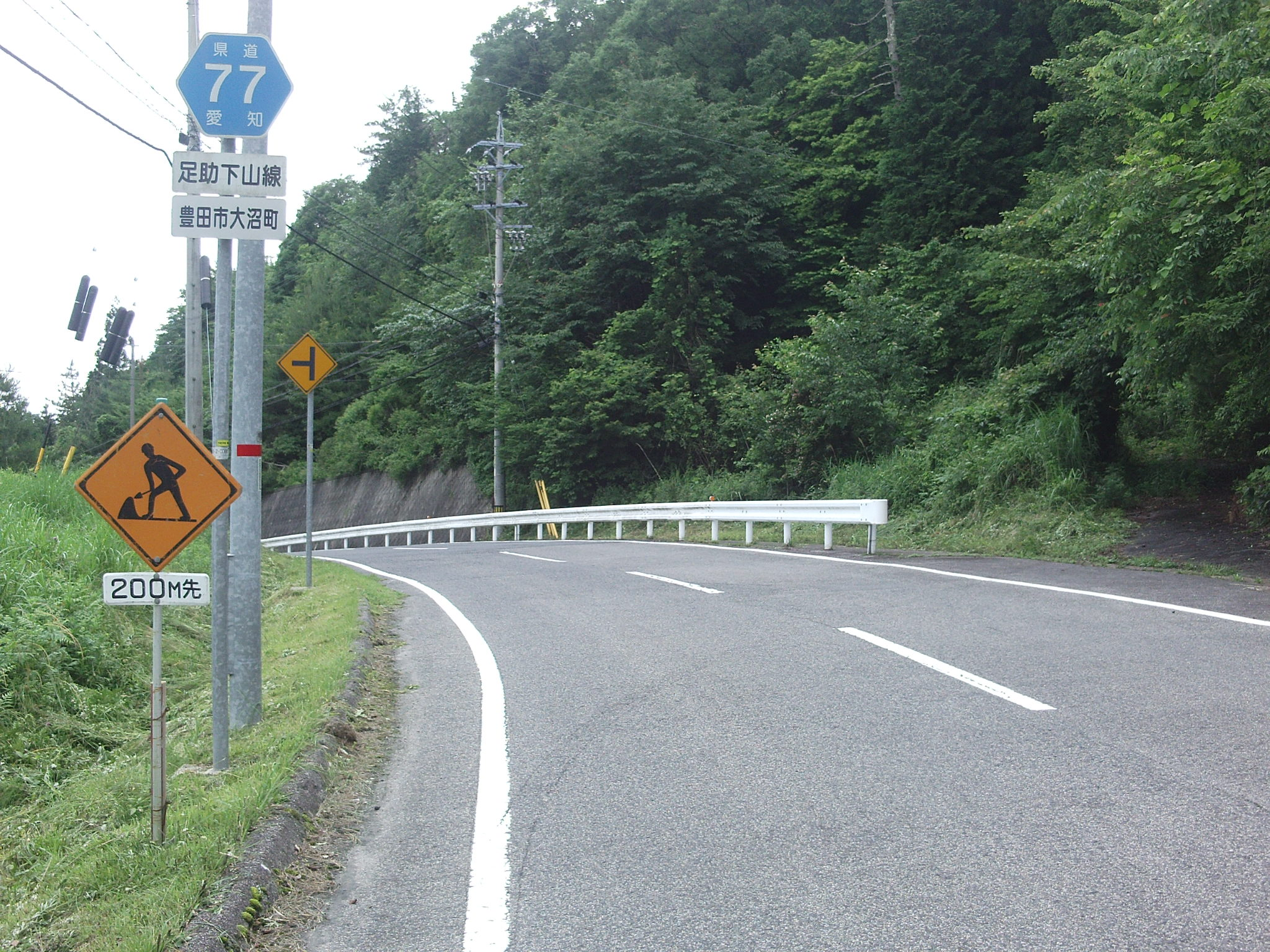 Aichi prefectural road No.77 in Onumacho, Toyota, Aichi.